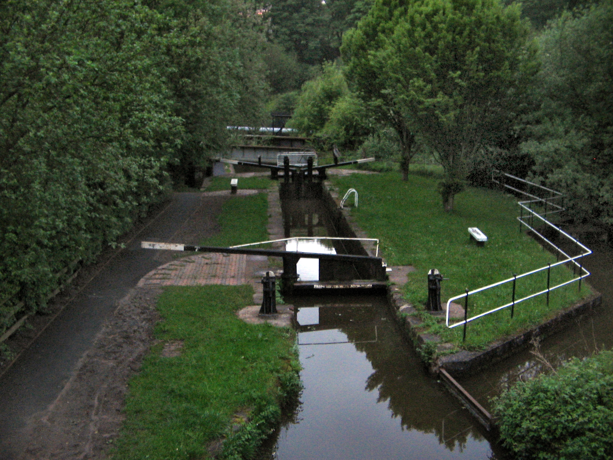 Canal on New Leek Road, Stoke-on-Trent.